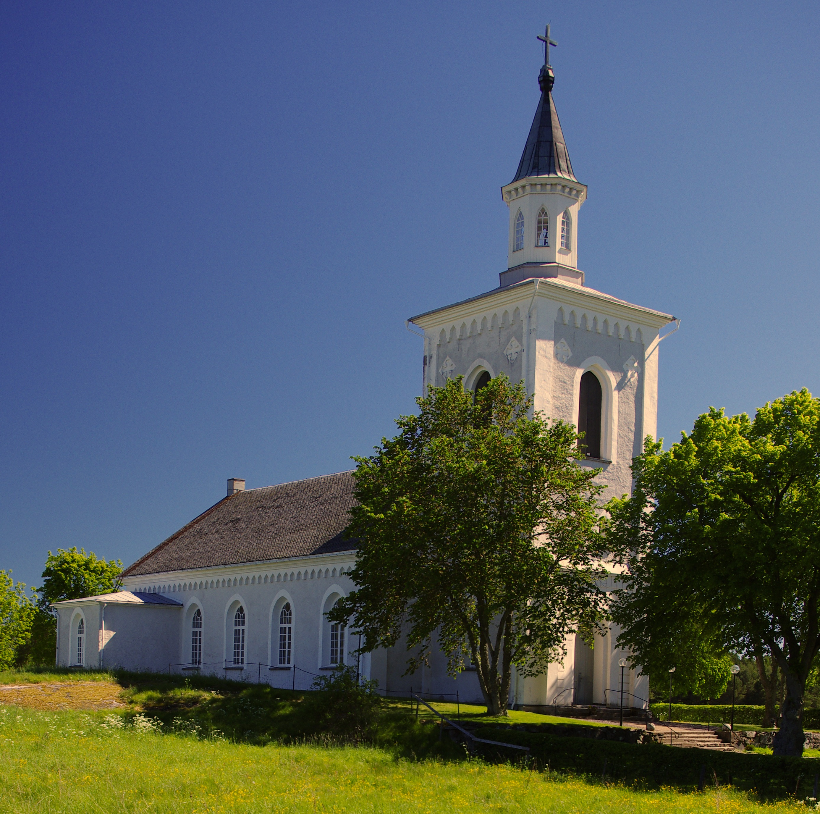 Otterstad church in Lidköping municipality, Västergötland, Sweden.